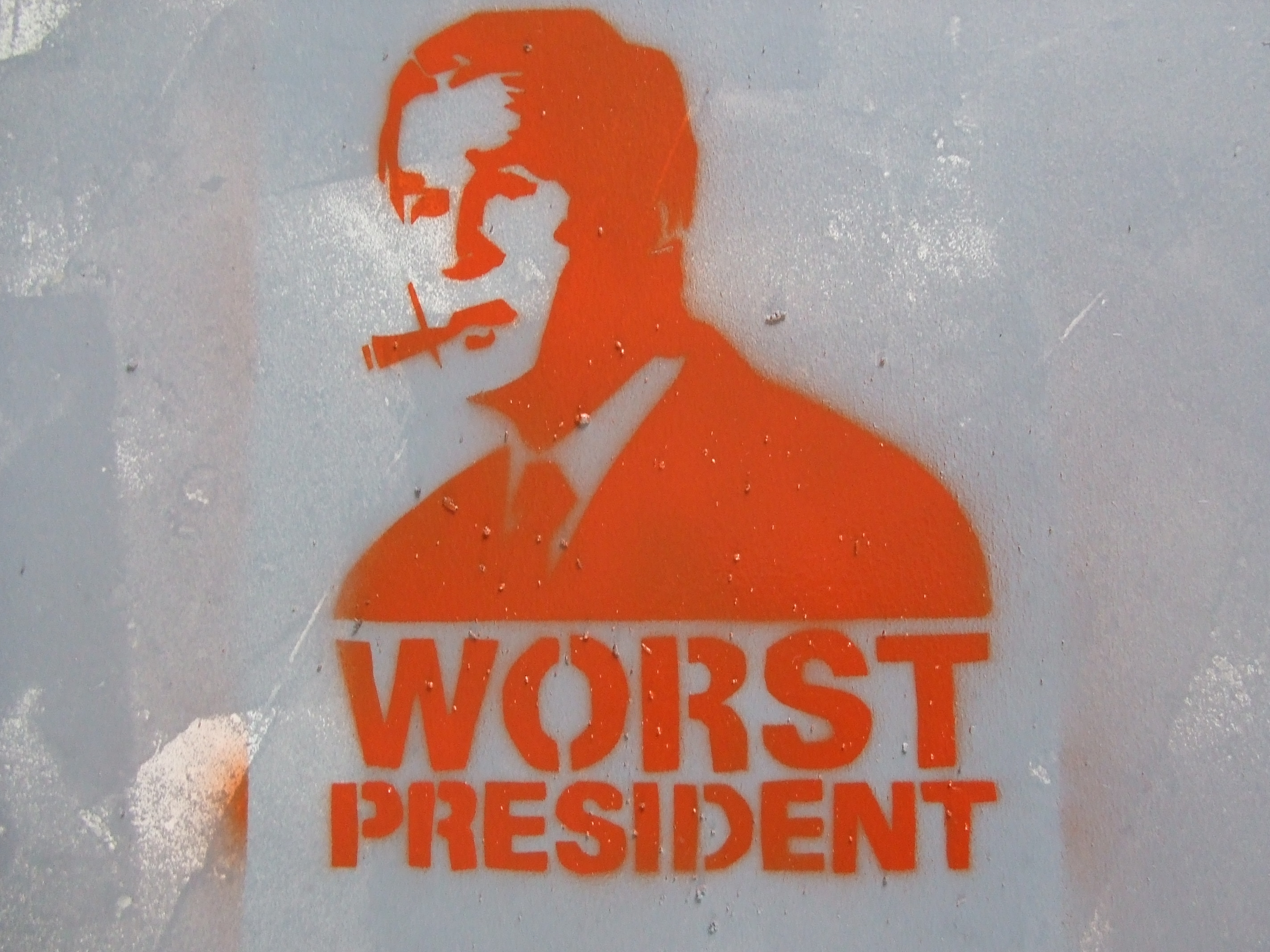 A piece of Street Art expressing opinion of U.S. President George W. Bush (Worst President).